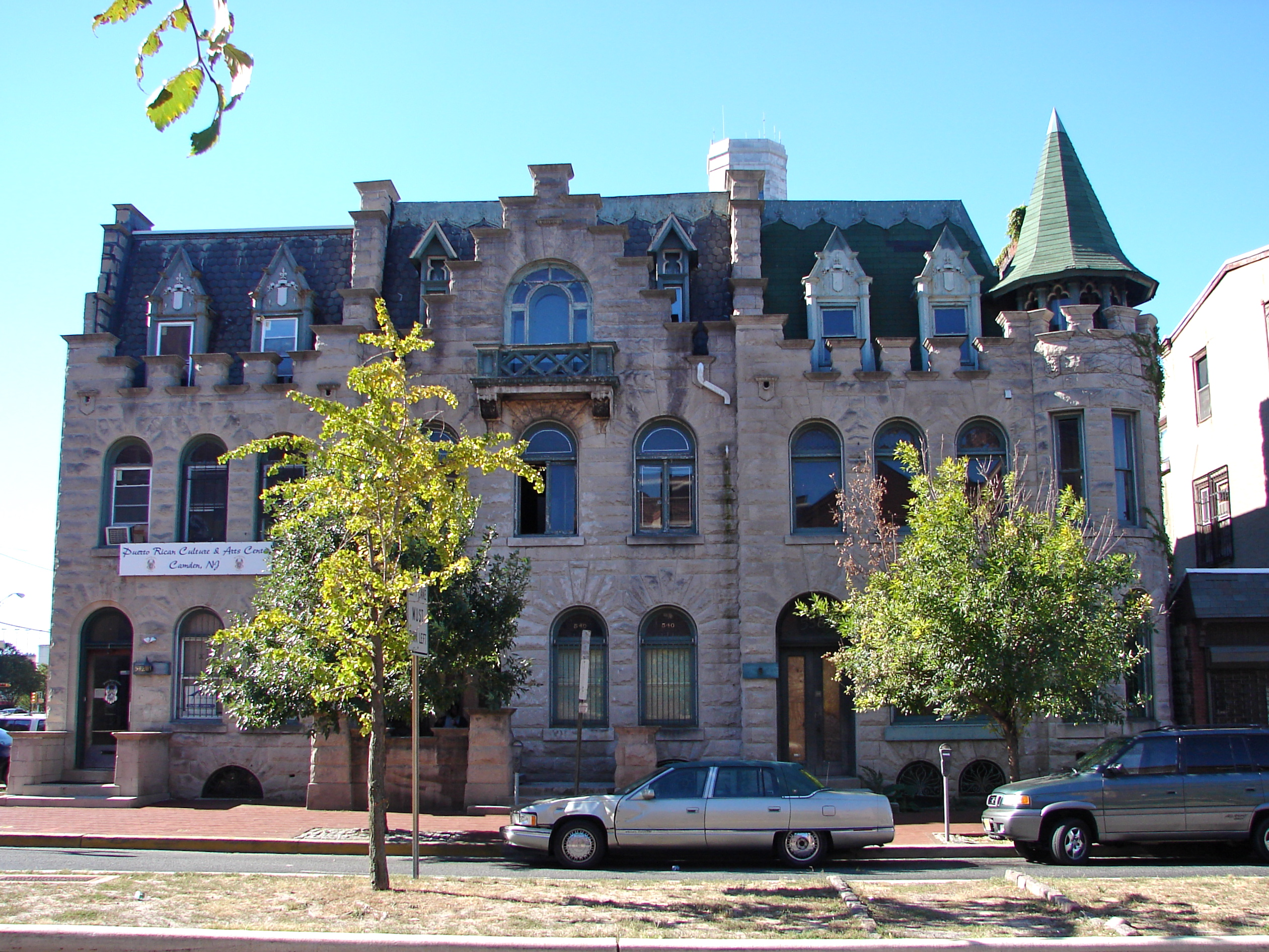 Building in Cooper Street Historic District, which has been on the NRHP since August 7, 1989. On Cooper St. from 2nd to 7th Sts. This building is on the south side of Cooper at 6th. 39°56′49″N 75°7′17″W Camden